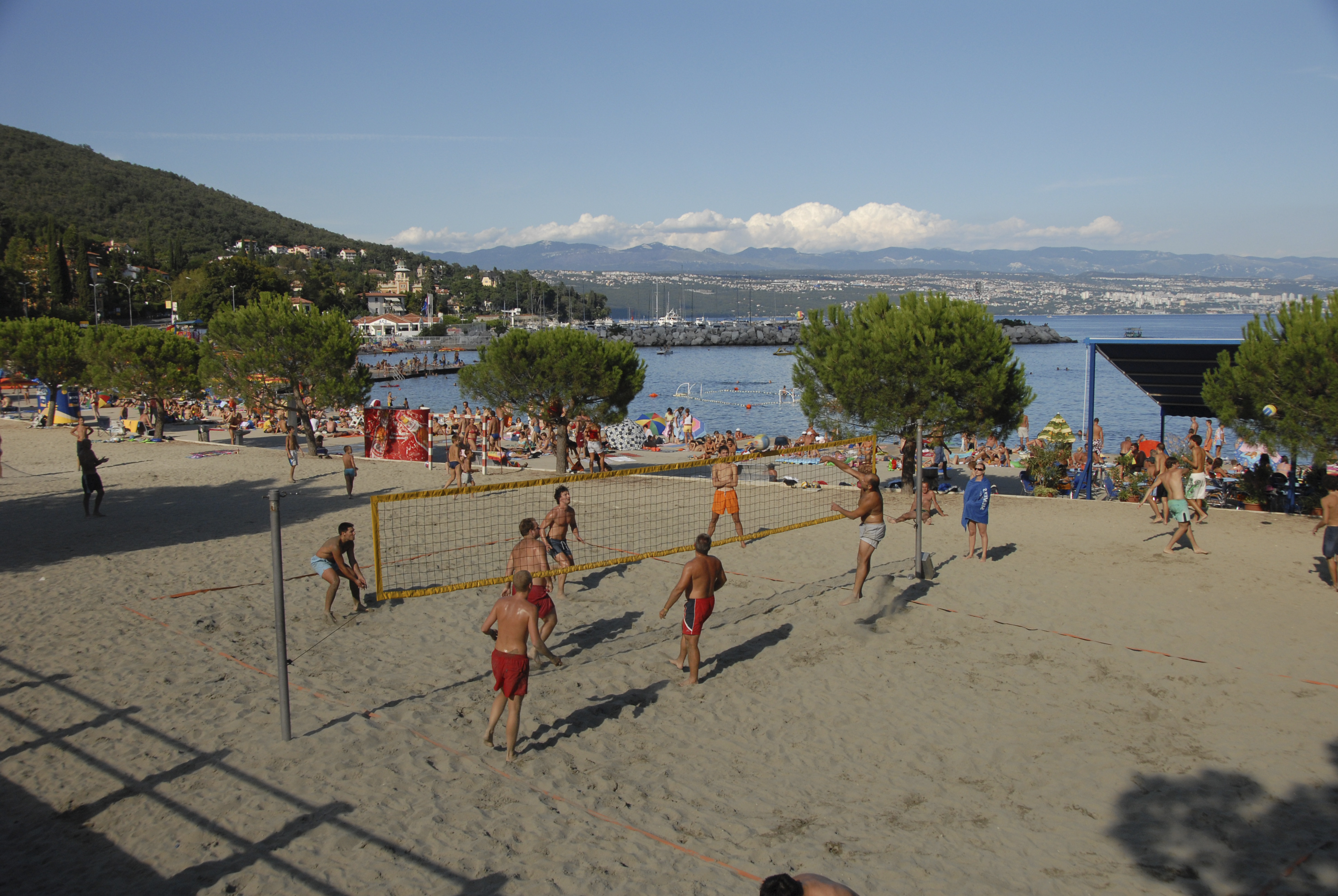 Playing a volleyball on sand